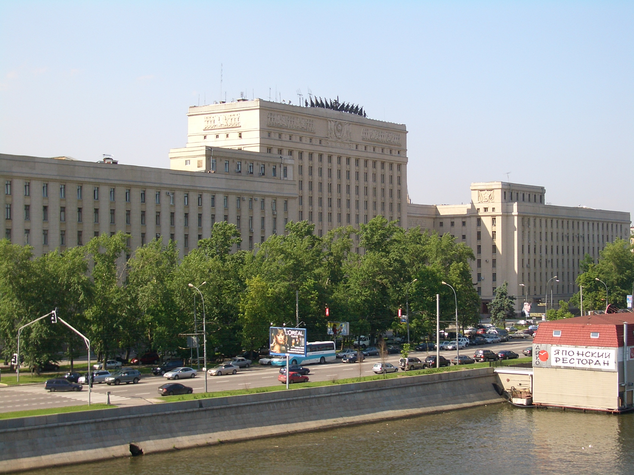 A Defence Ministry building (Russian Ground Forces Headquarters) on Frunzenskaya Embankment in Moscow